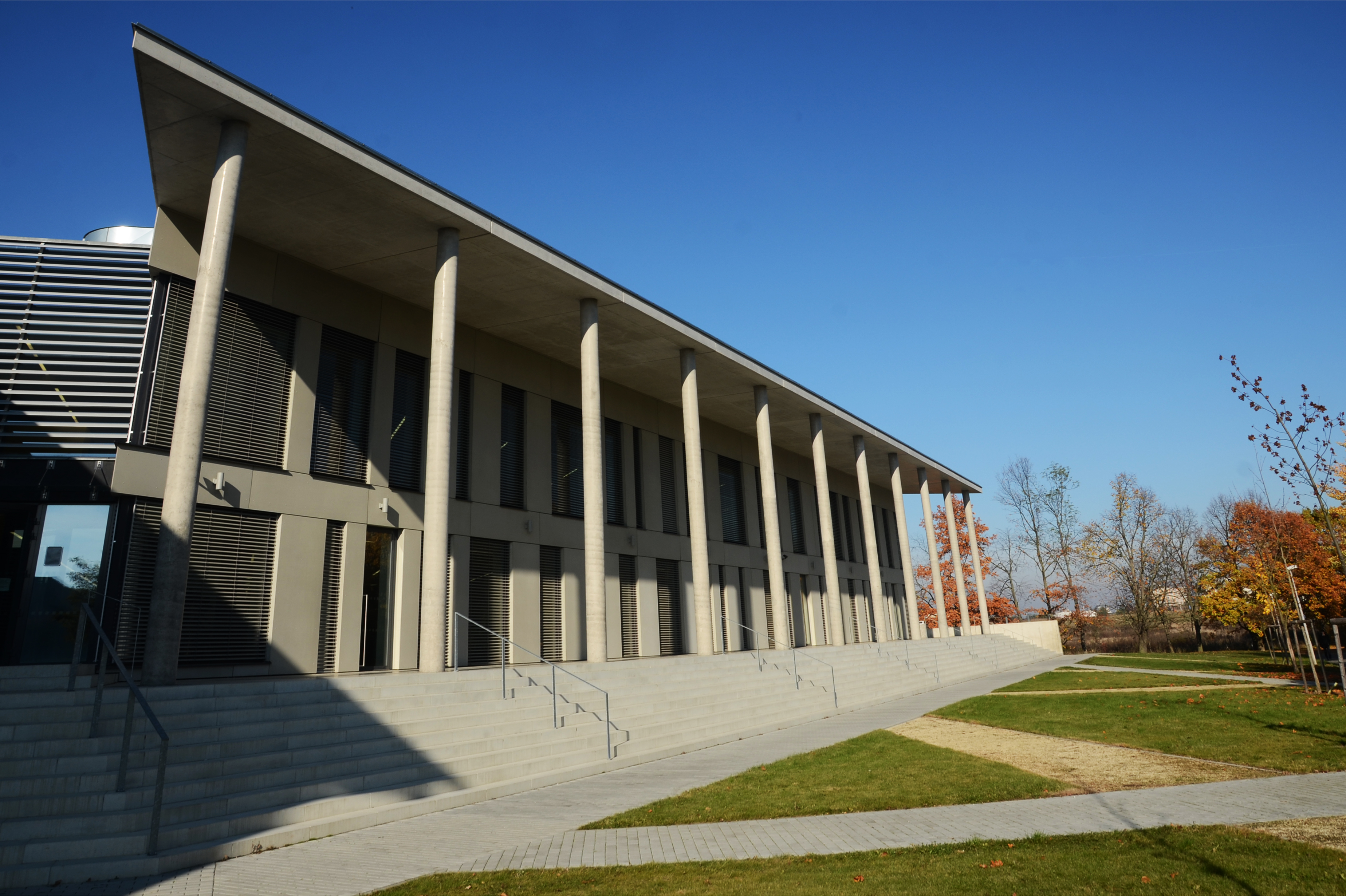 Building of University Library - University of West Bohemia, Pilsen, Czech republic